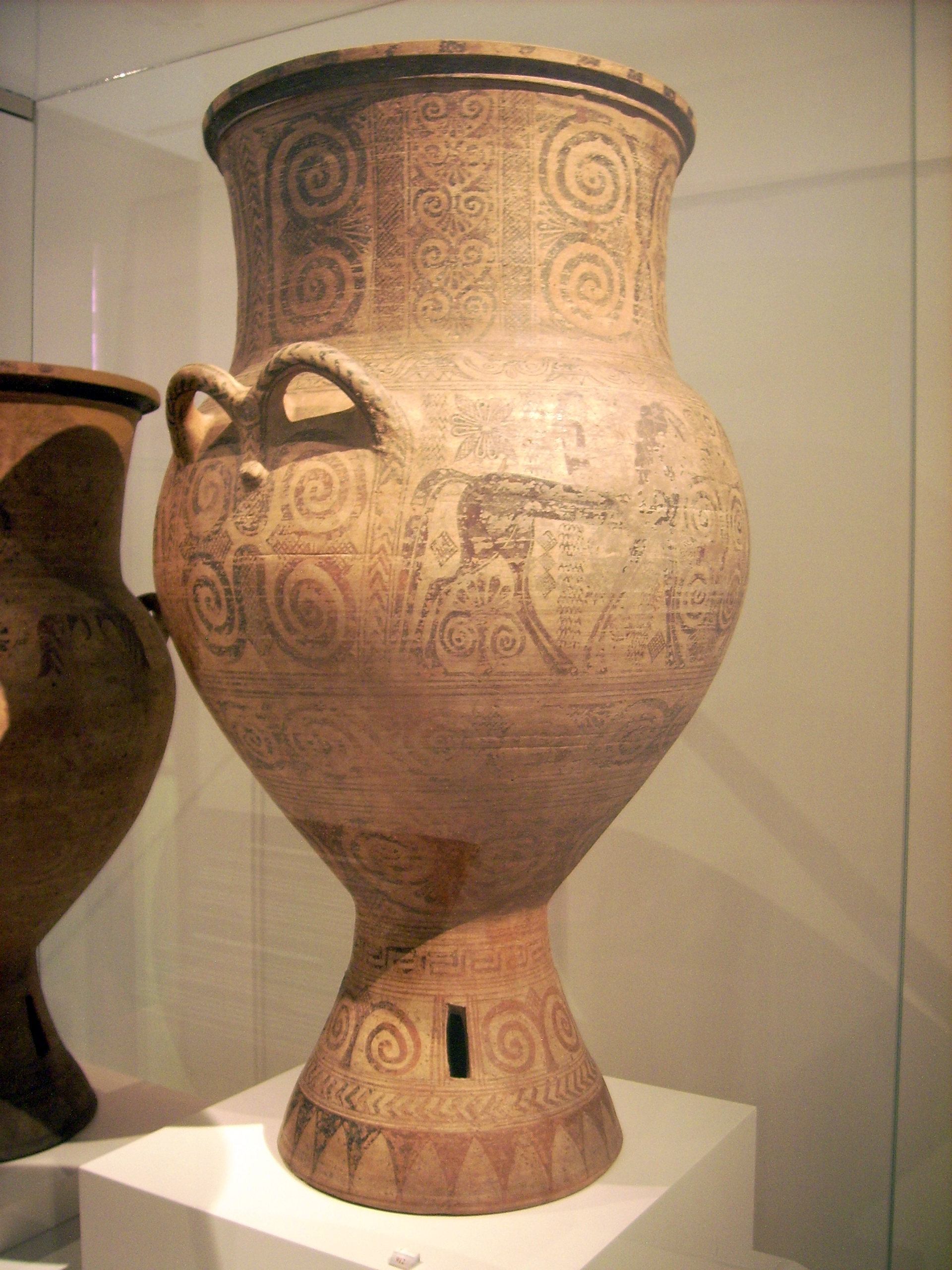 Phitos-Amphora from unknown provenance; A-Side: 2 Horsemen, B-Side: 2 Horses; depends to the "Melian Amphoras", but comes from a parian Workshop; made about 650/600 B.C.; today in the National Archaeological Museum of Athens (912).